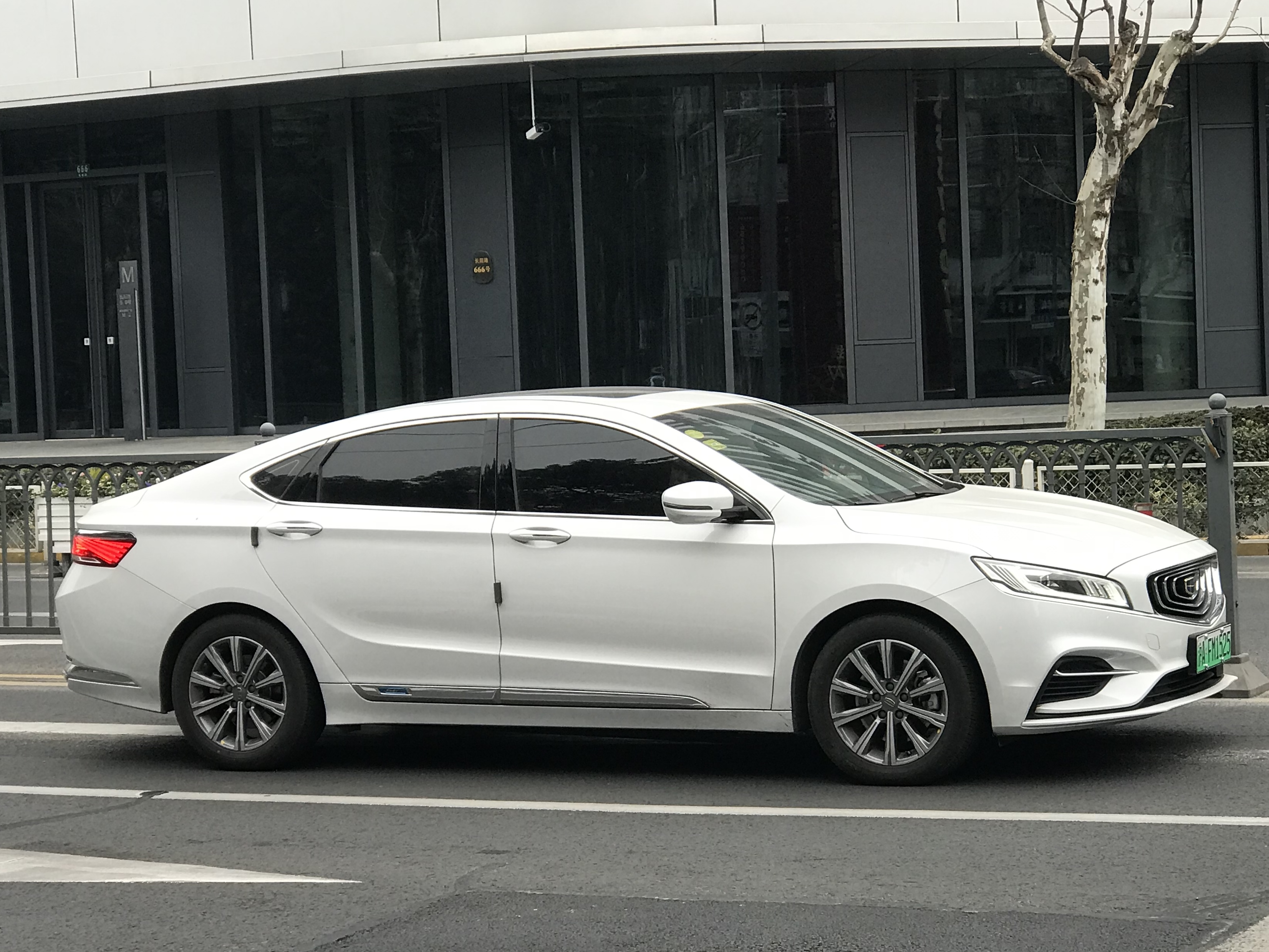 Geely Borui GE side